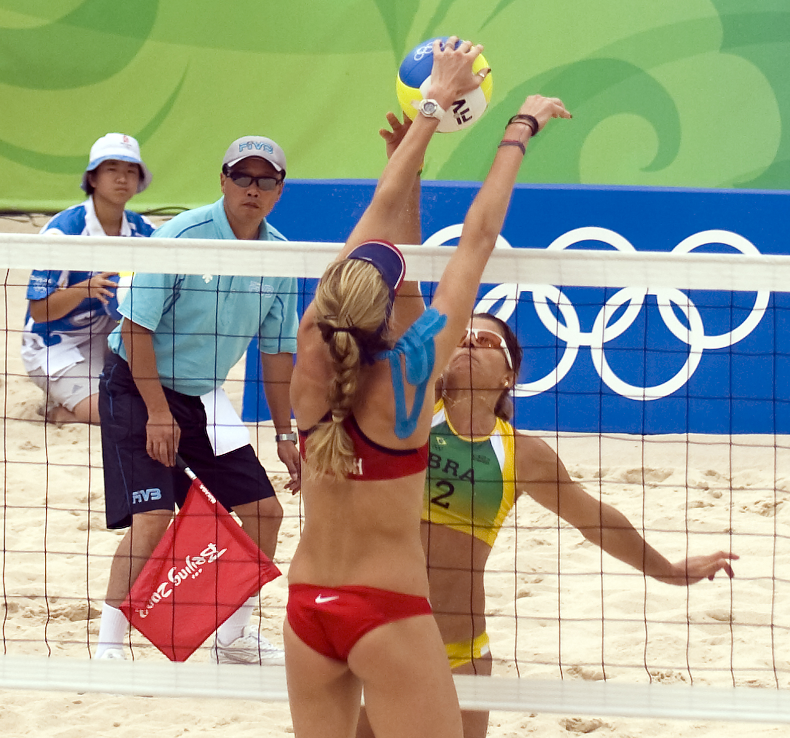 Beijing Olympics, Women's Beach volley, Semi-final: Kerri Walsh of the USA vs. Larissa França of Brazil